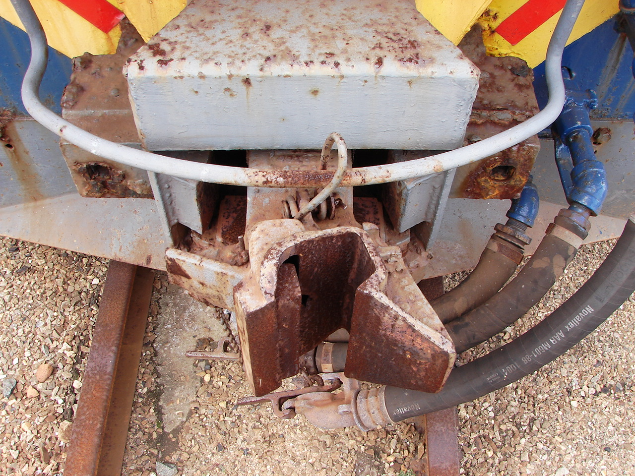 Willison coupler on type GE UM6B Class 91-000 no. 91-004Location: Humewood Road, Port Elizabeth, Eastern Cape